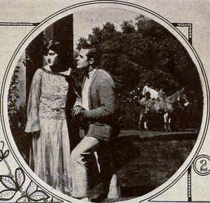 Still from the American film My American Wife (1922) with Gloria Swanson and Antonio Moreno, on page 191 of the December 23, 1922 Exhibitor's Trade Review.